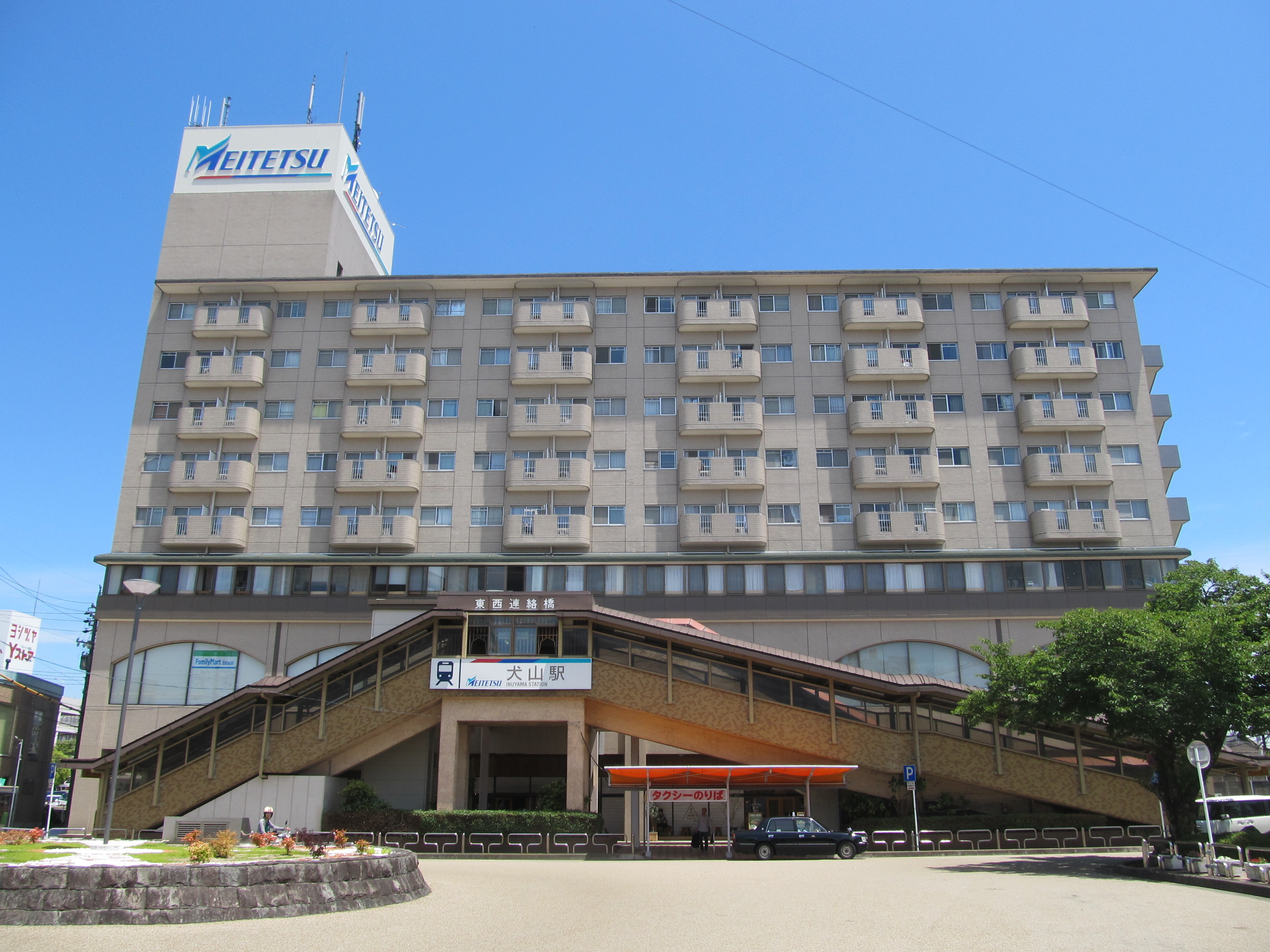 Nagoya Railroad Inuyama, Hiromi and Komaki Line Inuyama Station West Gate